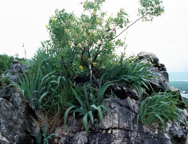 Pavle Cikovac, photographed by himself, May 2002 on the road between Niksic and Grahovo at 800 m AMSL in Montenegro